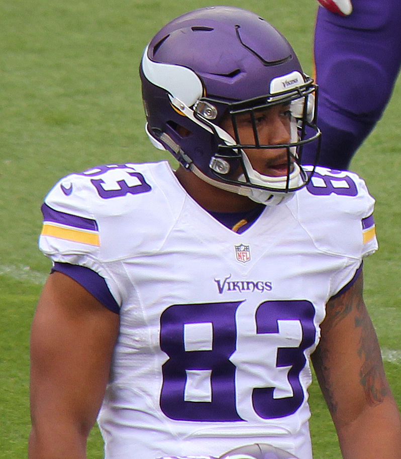 MyCole Pruitt, a player on the National Football League.